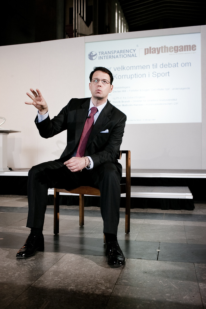 Play the Game 2009 in Coventry, UK 8 - 12 June 2009. Match-fixers: They are here. What are we going to do now? Declan Hill (right), PhD and Investive reporter.